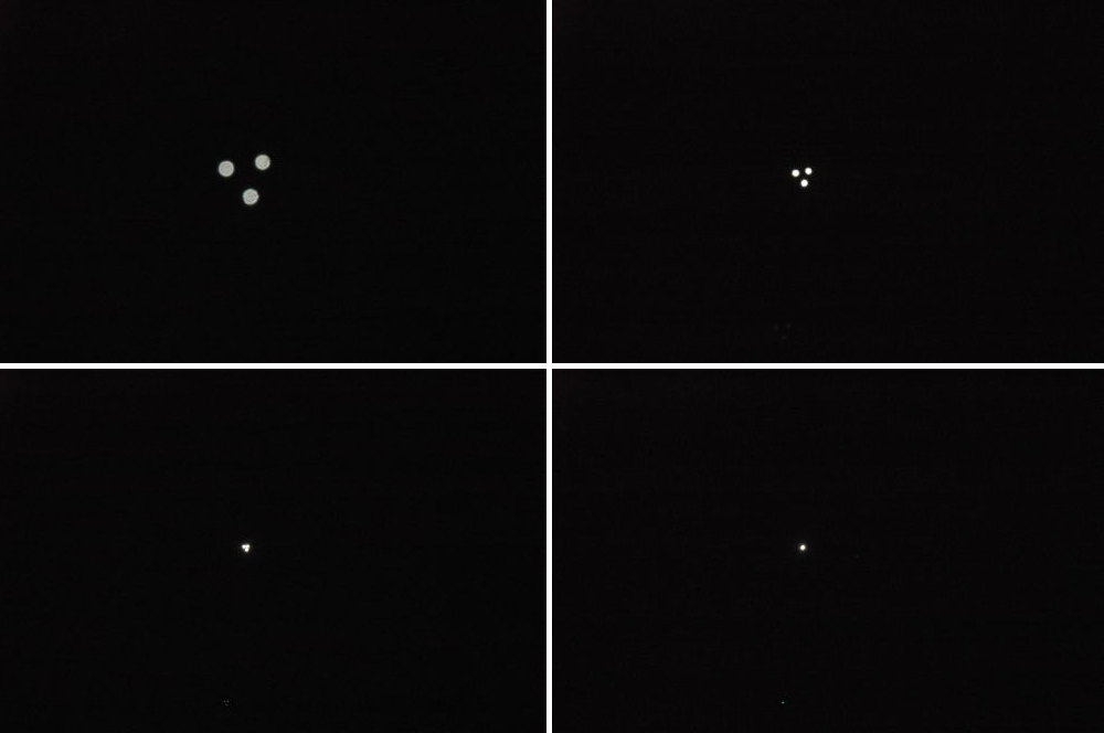 Focus steps with Hartmann mask.